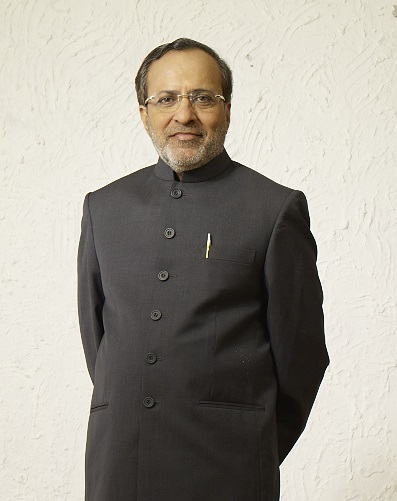 This is a portrait photograph of Shri Arjun Modhwadia.